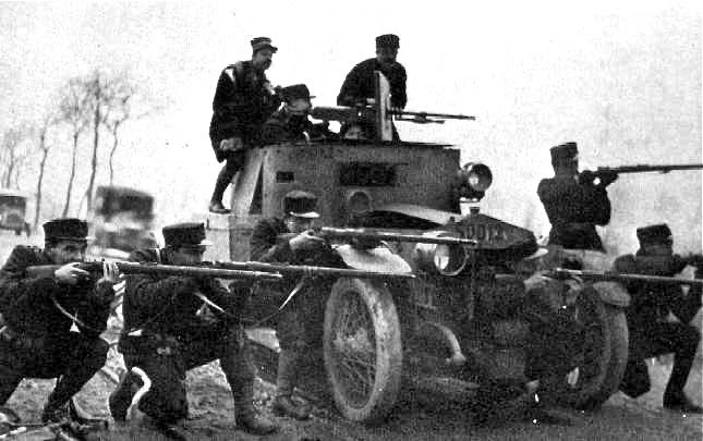 A Belgian Minerva armoured car and crew November 1914 1914 Model